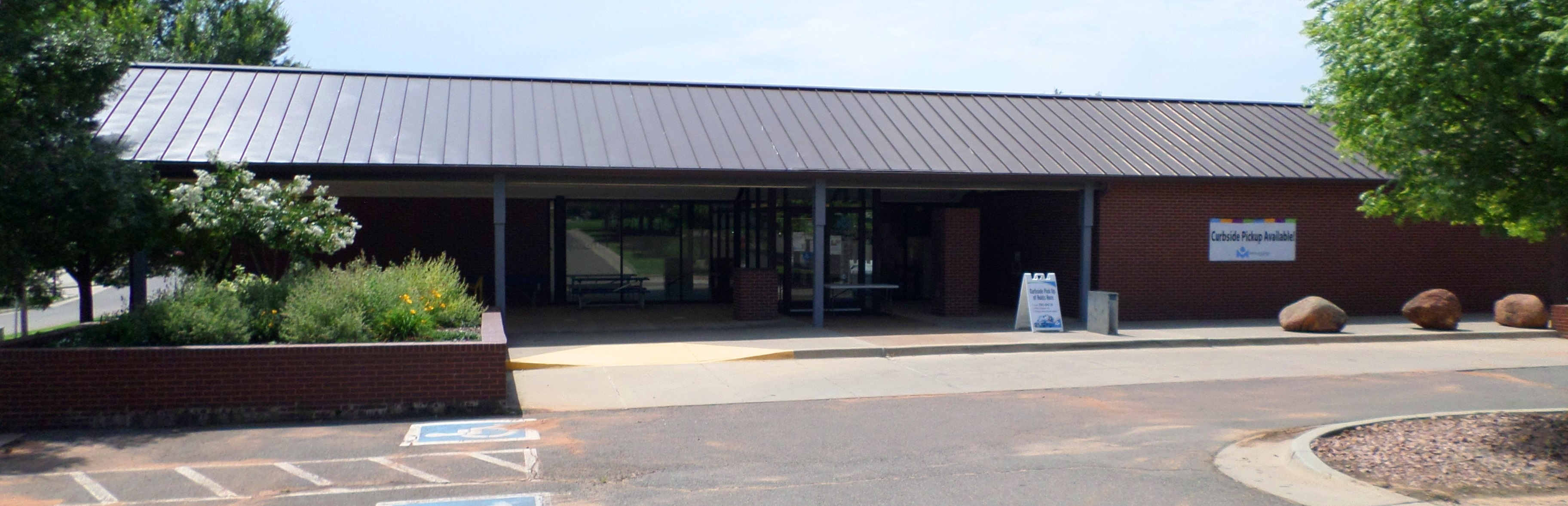 The Choctaw Library, located at 2525 Muzzy St., Choctaw, OK.